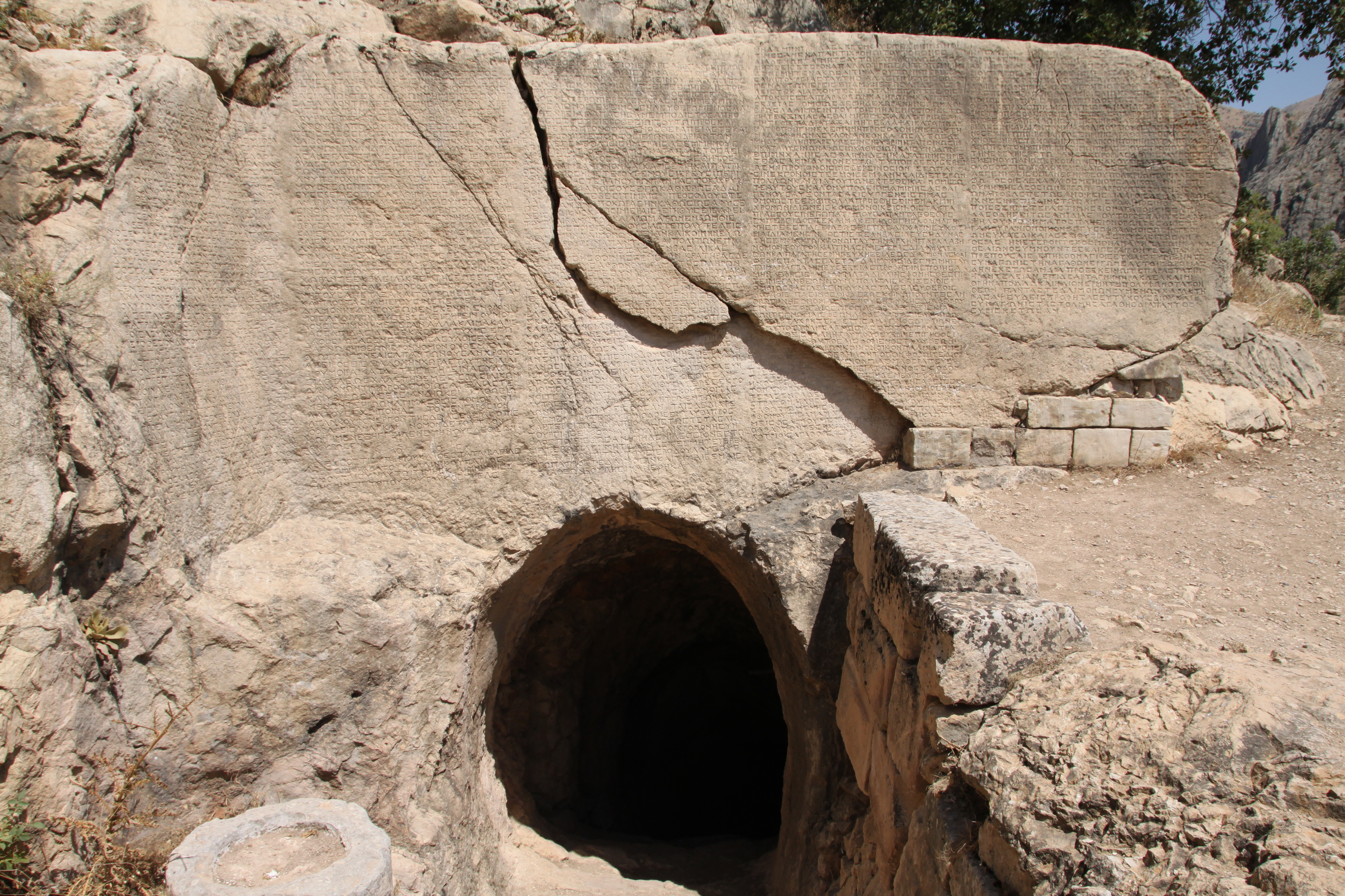 Inscription at the Hierothesion (tomb-sanctuary) of King Mithridates Kallinikos Nymphaios Arsameia